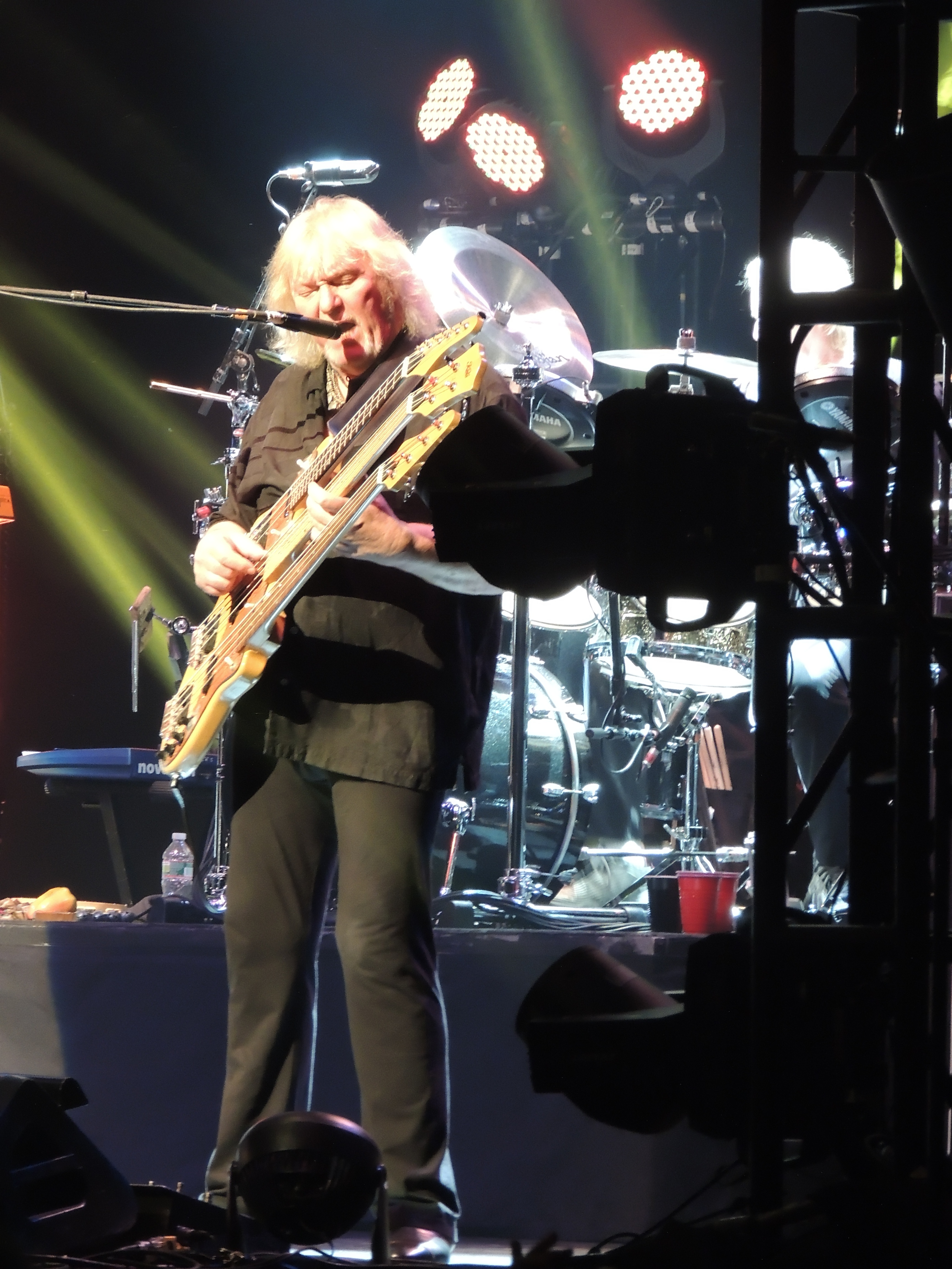 Chris Squire at the Beacon Theatre in April 2013.